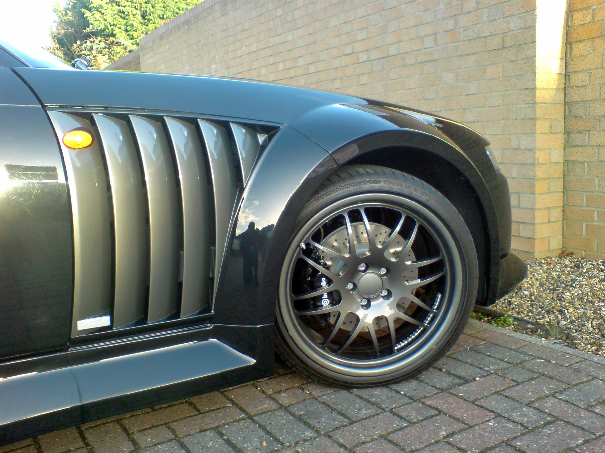 MG XPower SV This is the first and only time I have seen one of these on the road. According to the owner's club only some 58 were built between 2003 and 2005.